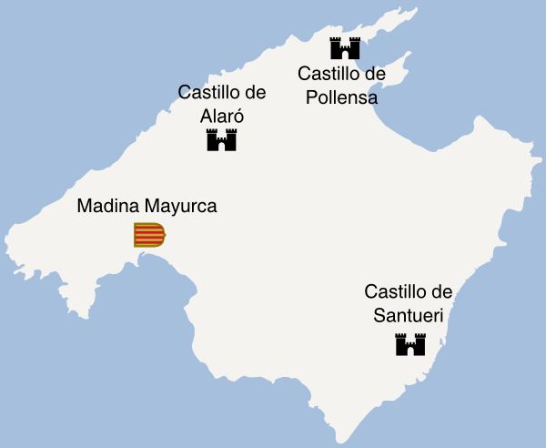 Muslim resistance during the conquest of Mallorca by James I of Aragón in 1229.